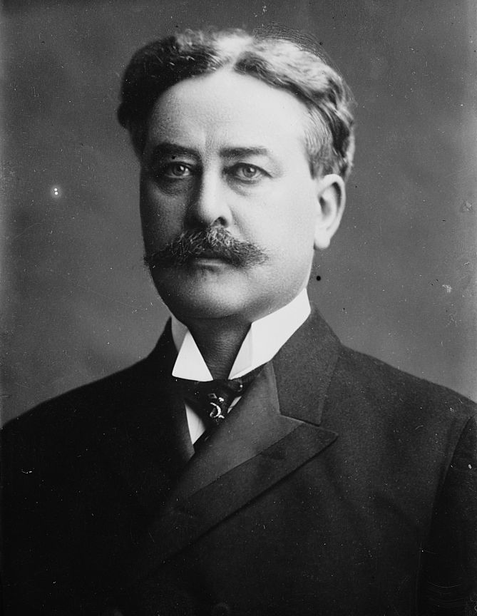 Carter Harrison, Jr. (1860 - 1953), Mayor of Chicago (1897-1905 and 1911-1915)